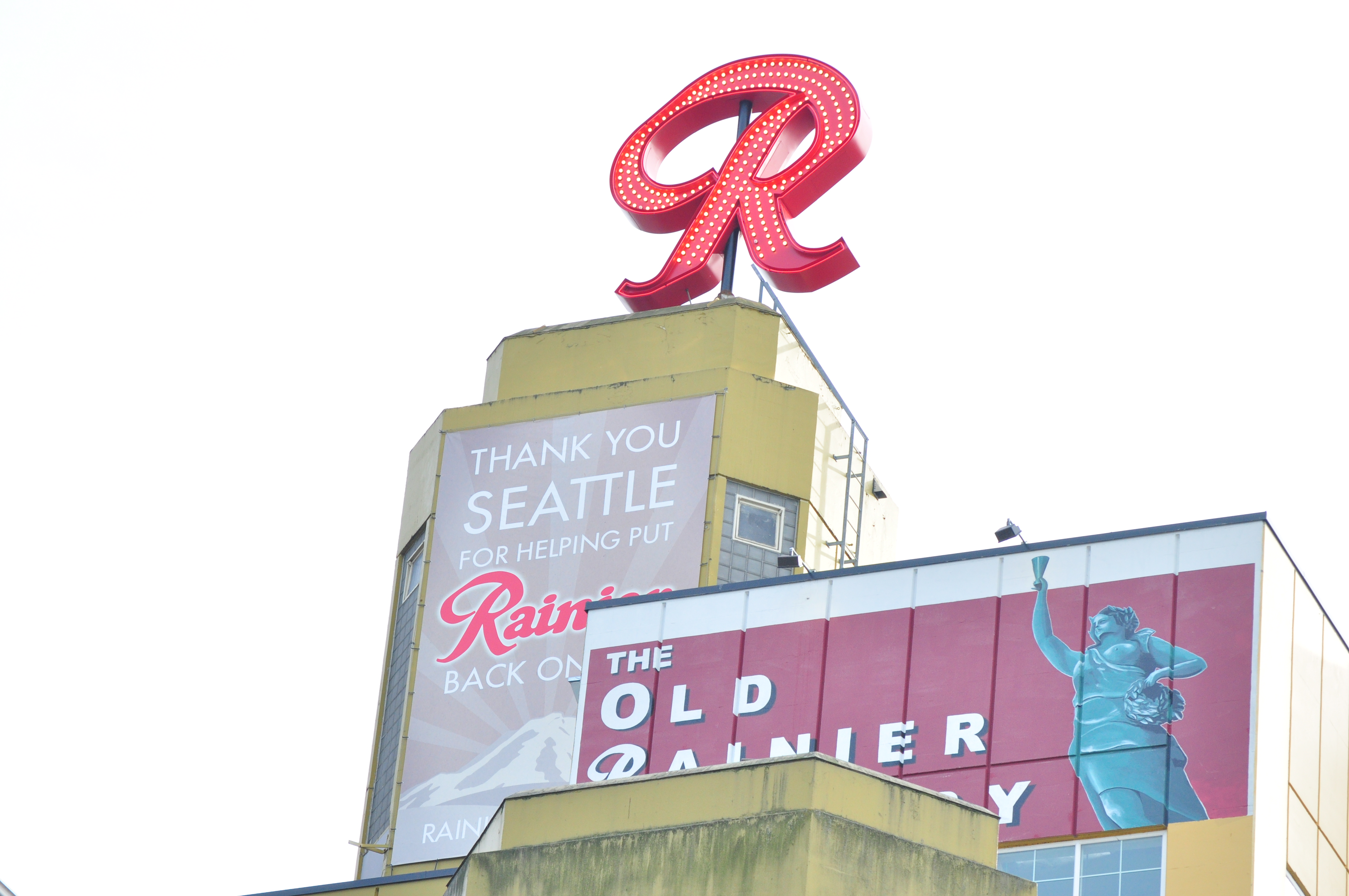 Former Rainier Brewery, Seattle, Washington, USA, shortly after the Rainier "R" was restored.